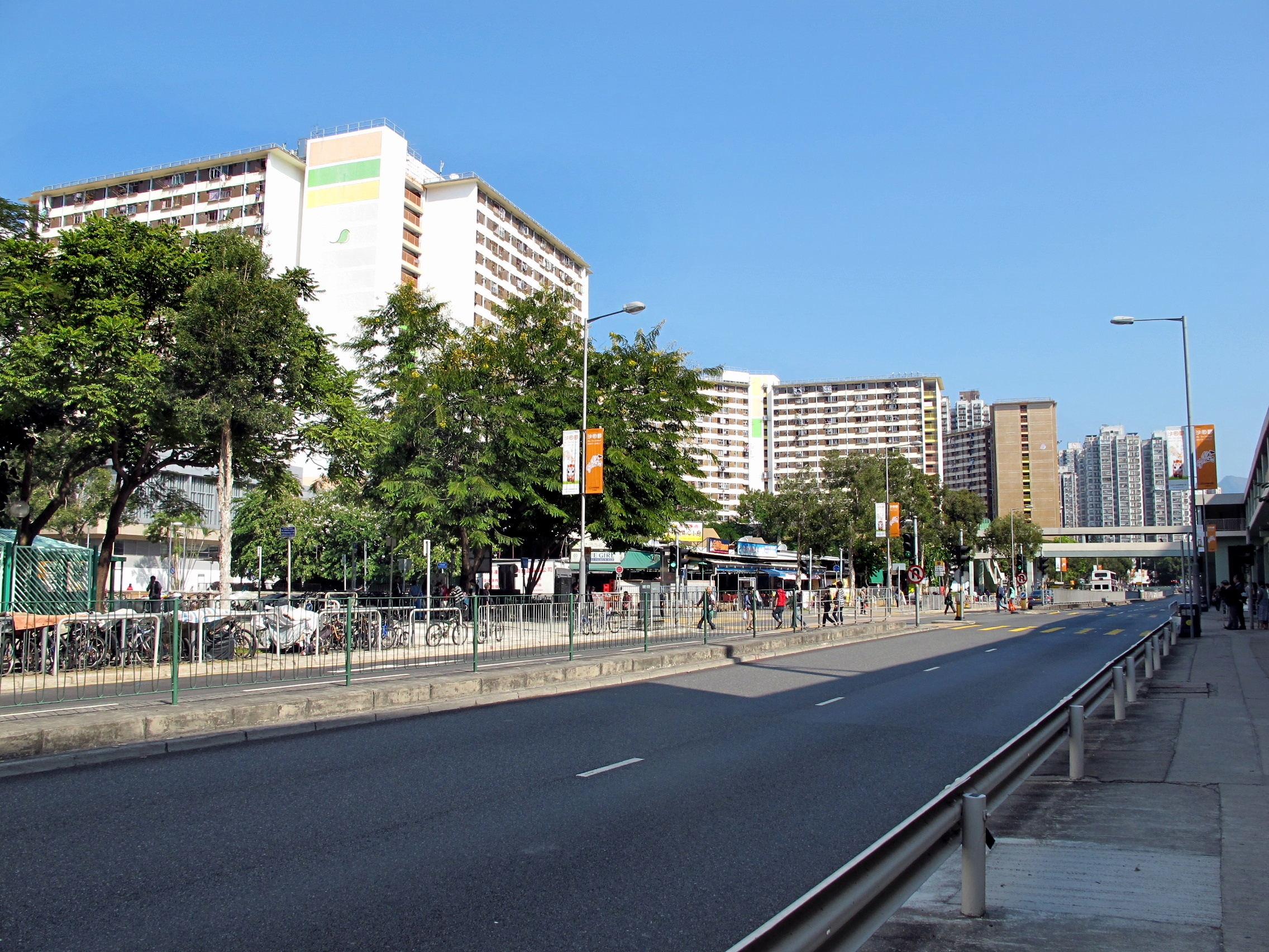 Sha Kok Street